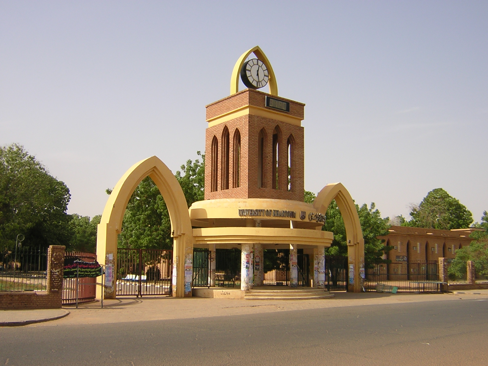 The main gate of the University of Khartoum, Khartoum, Sudan.